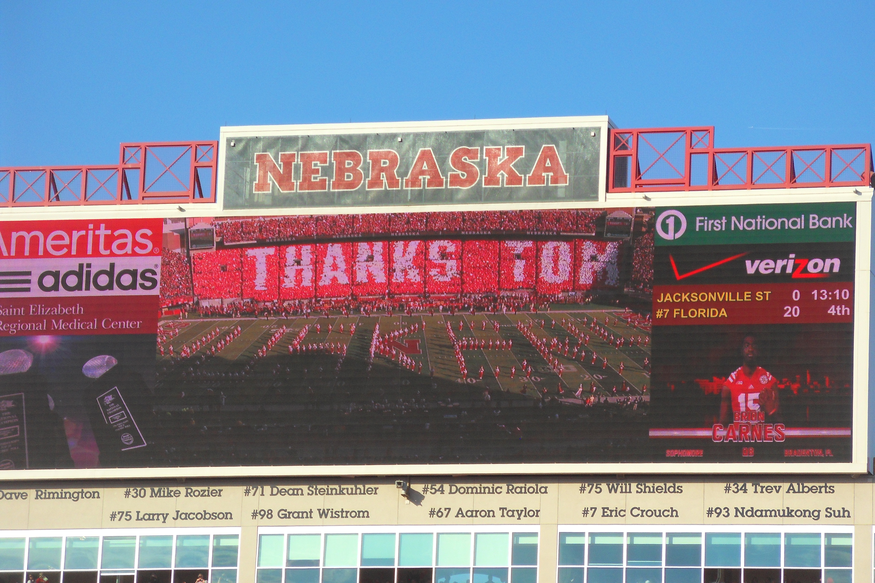 Memorial Stadium in Lincoln, Ne celebrating Tom Osbornes 500th football game with an official role with the Husker football program.